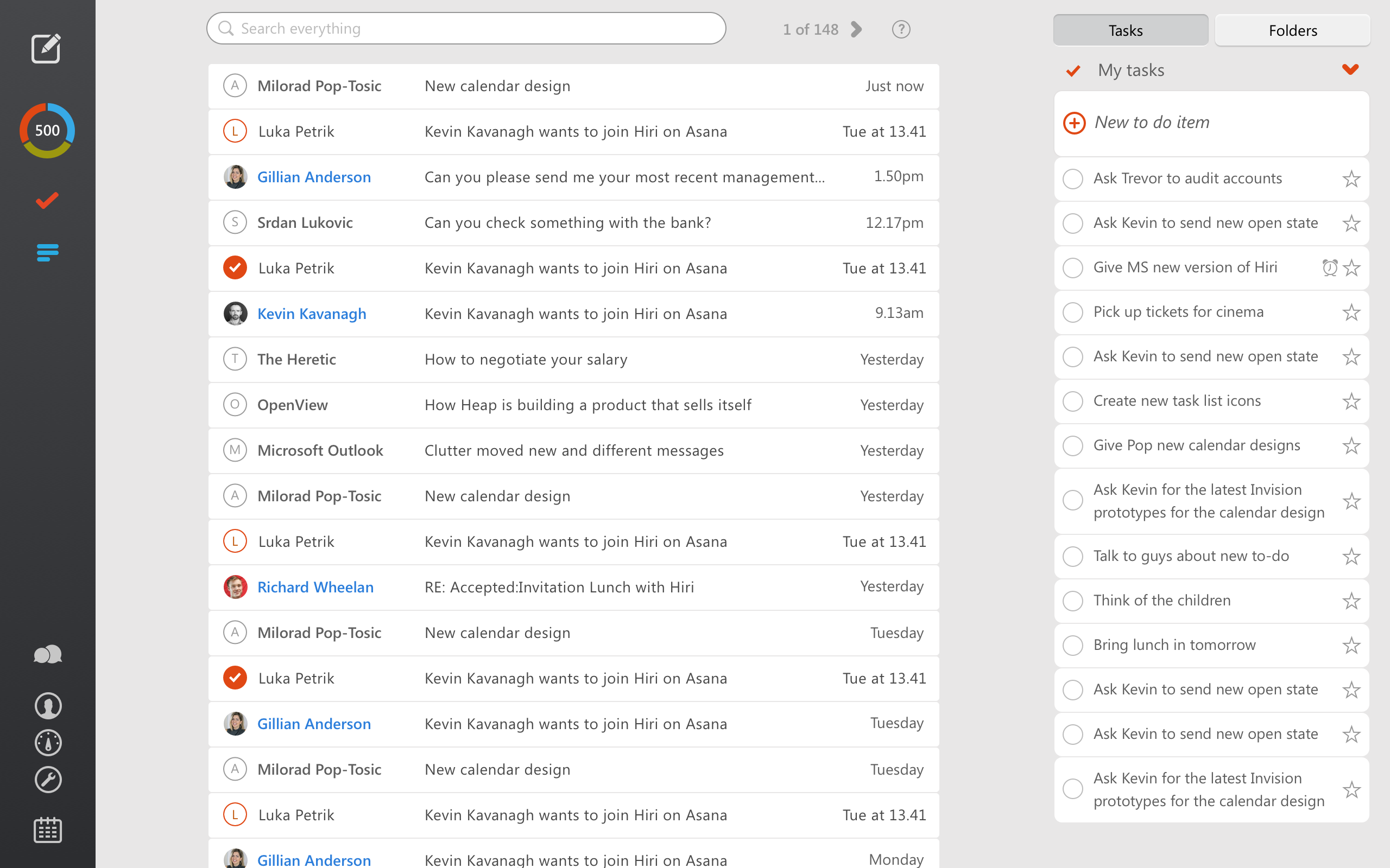 Hiri inbox screenshot